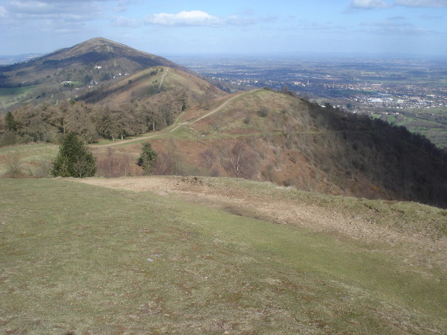 The northern Malvern Hills and the jubilee memorials. From the ridge path on Pinnacle Hill looking north to Jubilee Hill, then Perseverance Hill, then the Worcestershire Beacon (highest point on the ridge). Jubilee Hill had no name until 2002, when Prince Andrew climbed it to unveil the small plaque at the summit, which celebrates the Queen's 50th jubilee. There is also a toposcope on the Worcestershire Beacon celebrating Queen Victoria's 60th jubilee in 1897 (446910. Great Malvern in the distance on the right. The Shire Ditch in the foreground slanting across from the right. Many consider the nine-mile Malvern Hills ridge to be one of the finest walks in England.